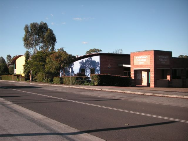 Wyndham College, a secondary school located in the Nirimba Education Precinct in Schofields, NSW